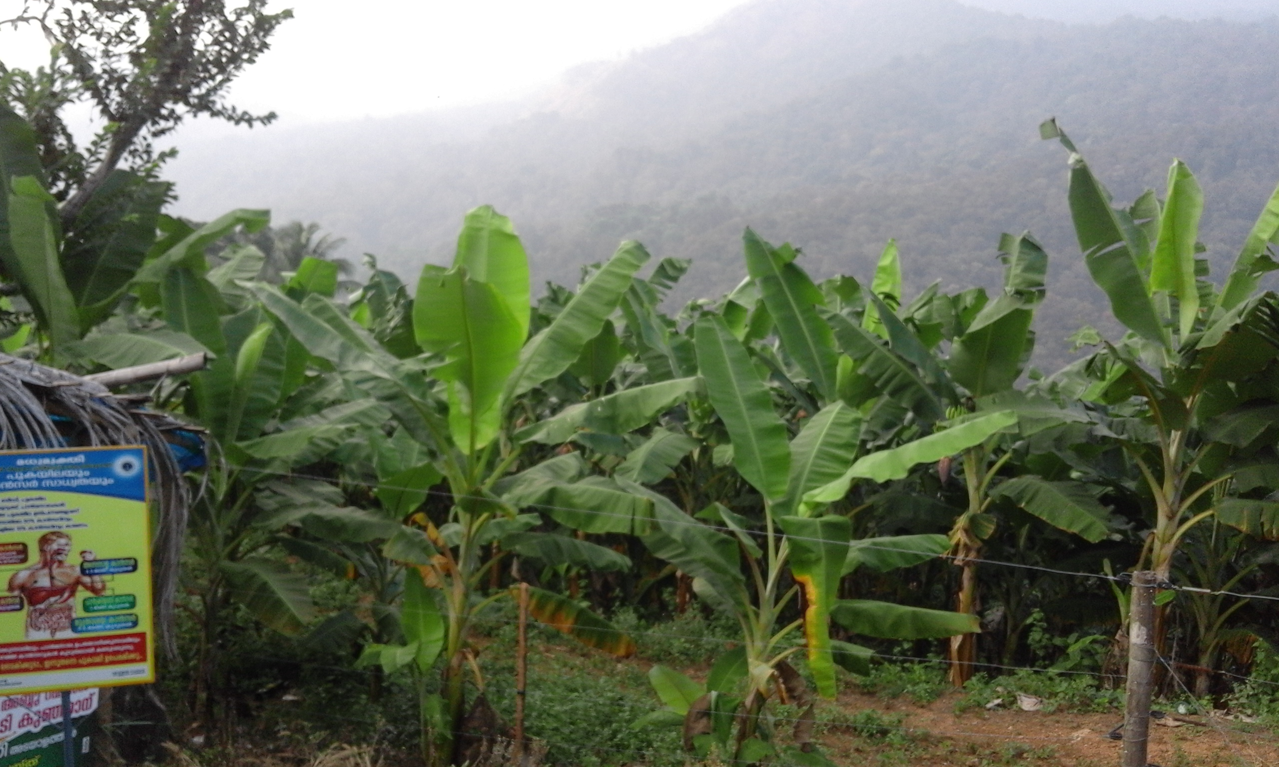 Kakkadampoyil, Kerala, India.